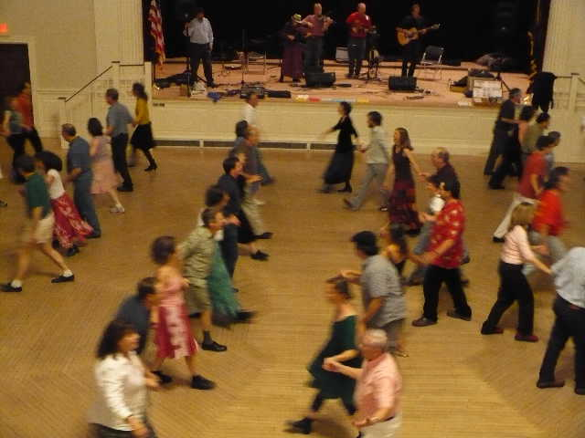 Peterborough contra dance